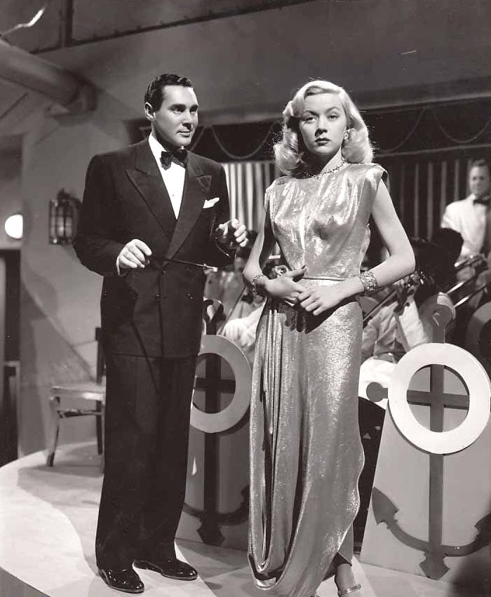 Philip Reed and Gloria Grahame in Song of the Thin Man publicity still